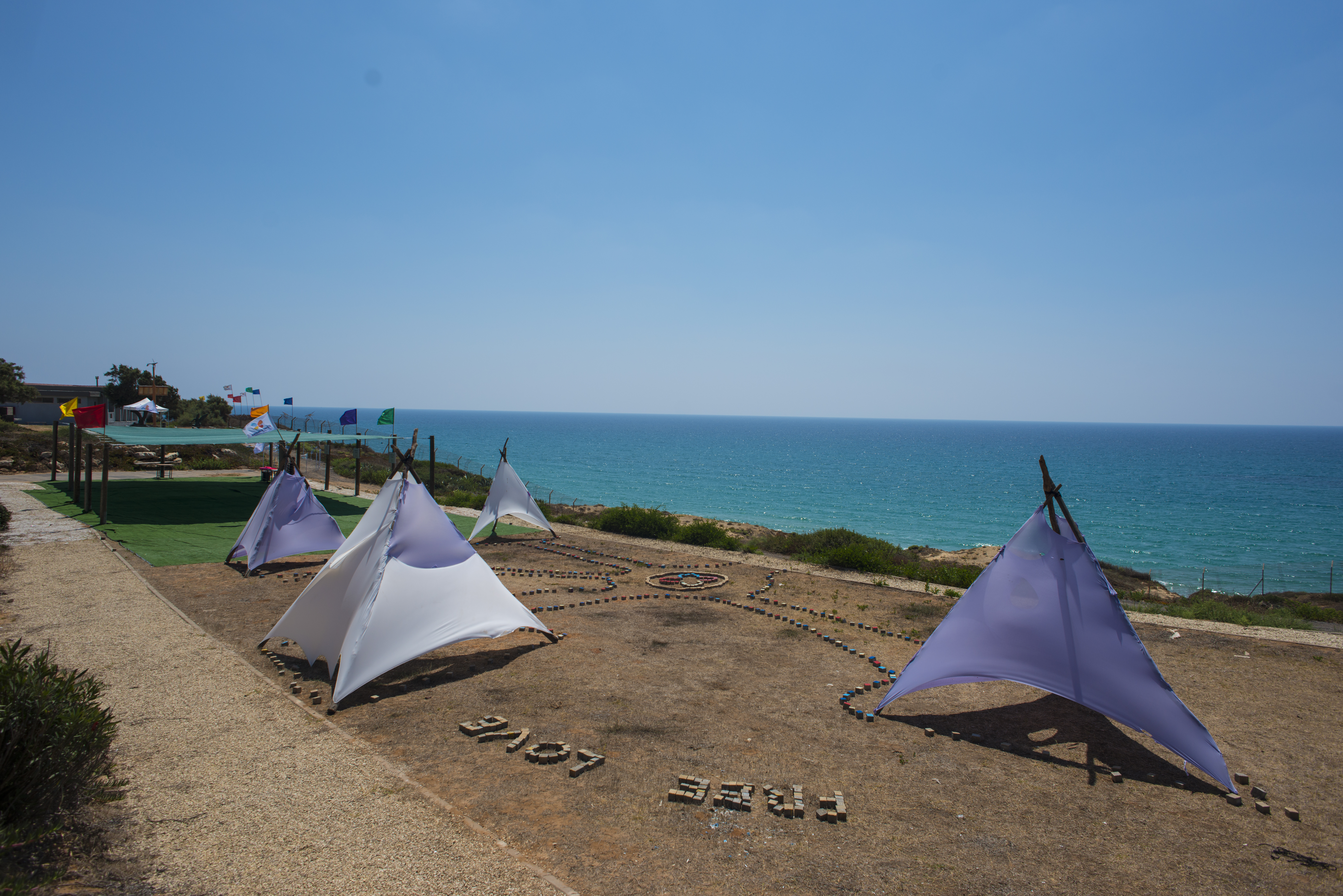 kimama hof